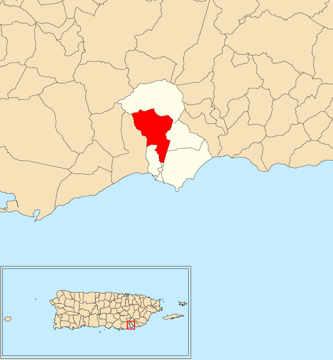 Pitahaya, Arroyo, Puerto Rico locator map